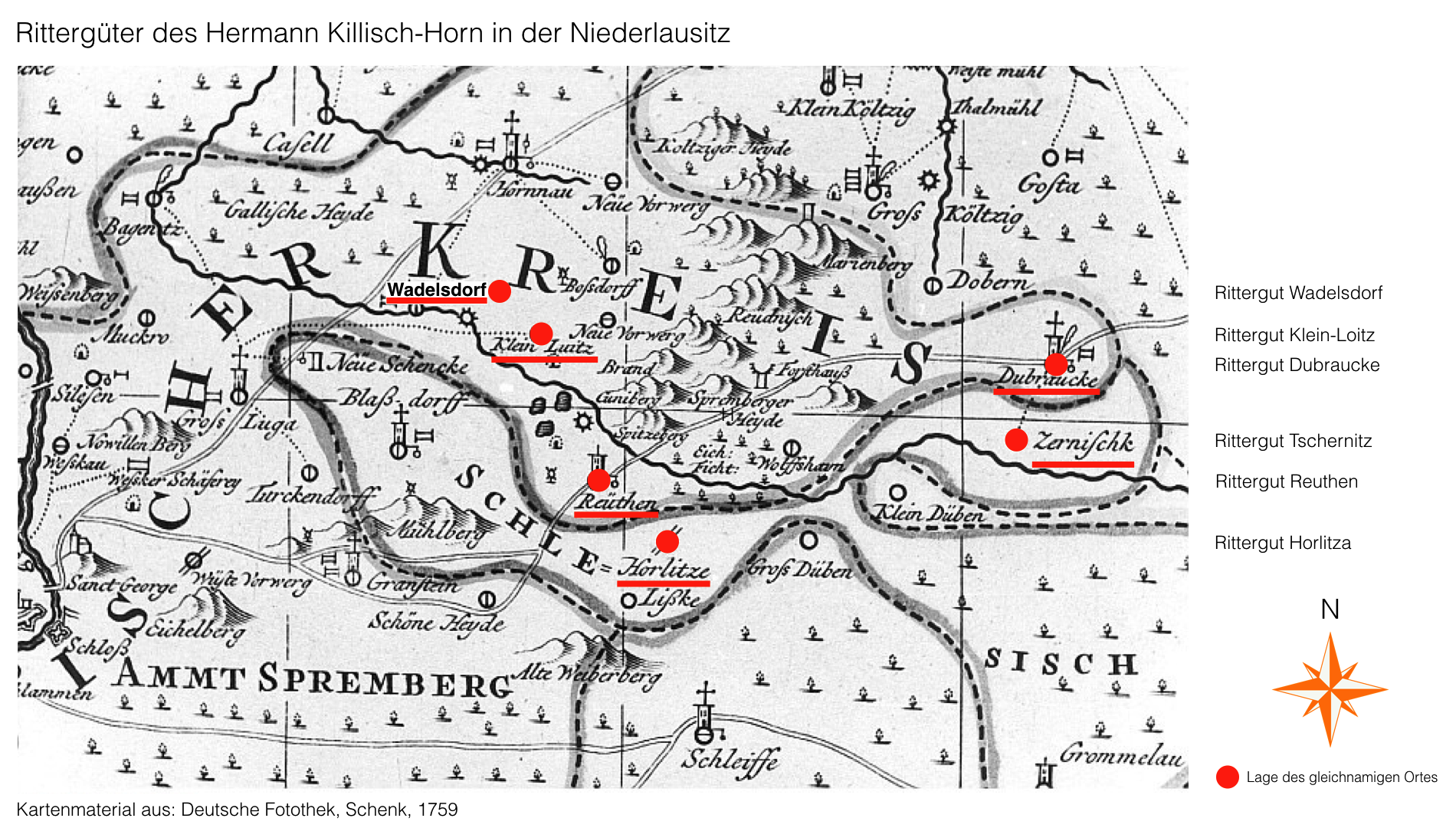 Manors of Berlin-based publisher Hermann Killisch-Horn (1821–1886) in Lower Lusatia of Province Brandenburg in Prussia.